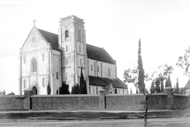 The original St Mary's Cathedral in Perth, Western Australia, in 1894.